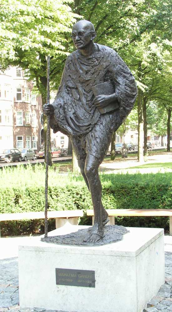 Gandhi's statue, located near the Churchilllaan in Amsterdam.